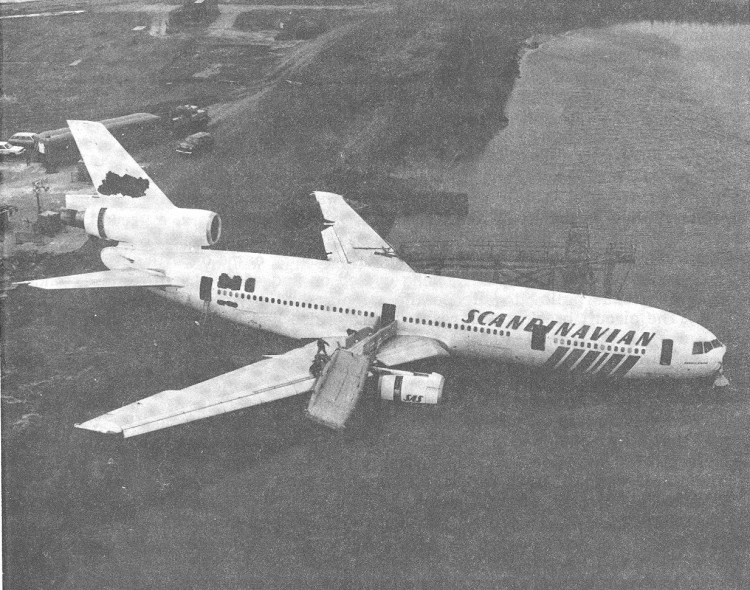 Crash wreckage of a Scandinavian Airlines System McDonnell Douglas DC-10-30 LN-RKB after runway overrun on Runway 04R at John F. Kennedy International Airport. No-one was killed and the aircraft repaired. The logo on the vertical stabilizer and the flags on the aft exit were censored (even though the logo on engine 2 was left intact). Compare to File:Photo of McDonnell Douglas DC-10-30 LN-RK, Feb 1984.jpg)